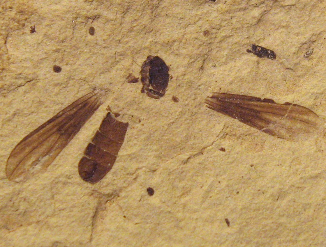 Metanephrocerus belgardeae holotype female. Stonerose Interpretive Center specimen SR 08-06-02. Collected by A.R. Belgarde in 2007 from the Klondike Mountain Formation.